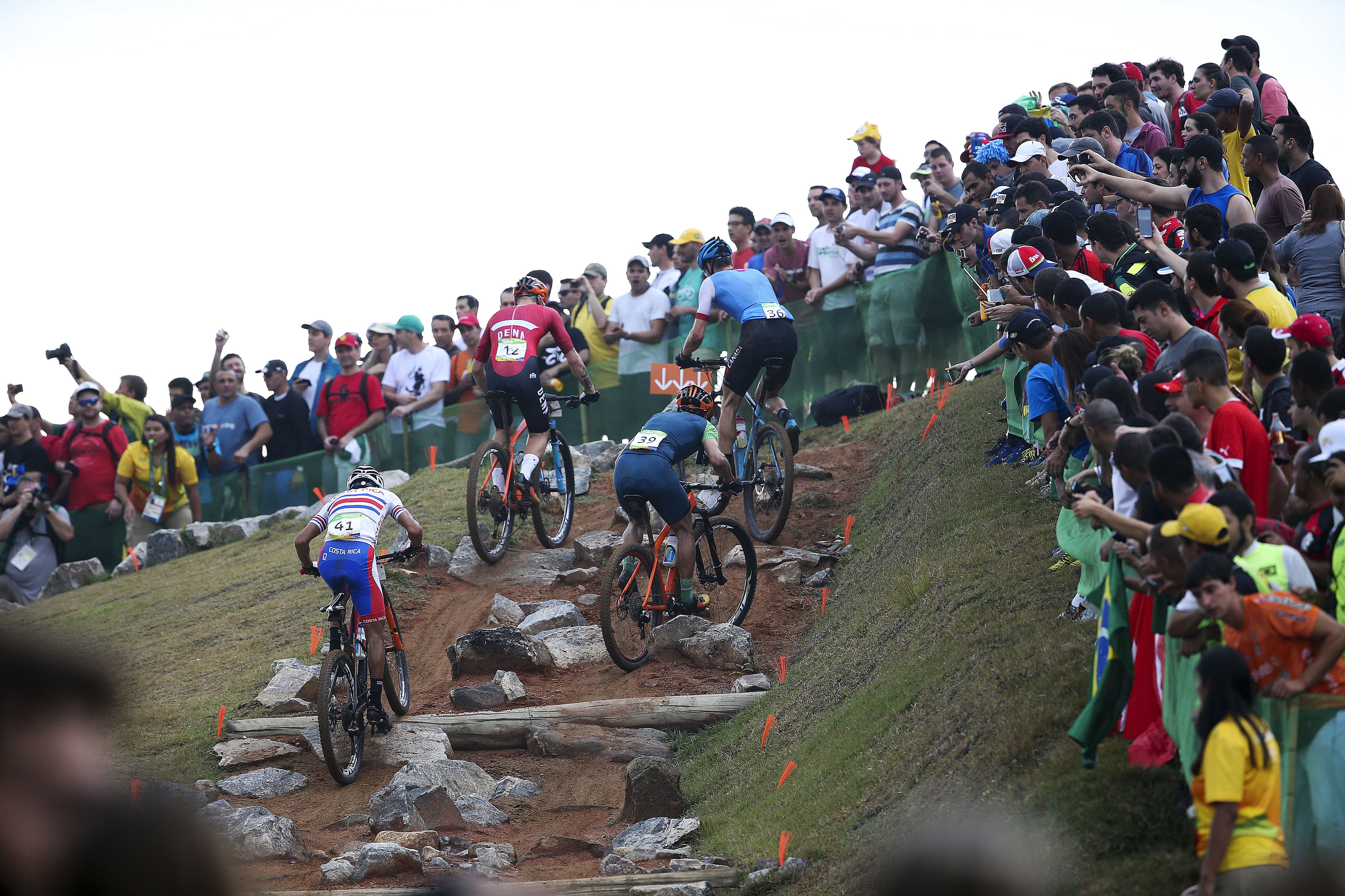 Cycling at the 2016 Summer Olympics – Men's cross-country